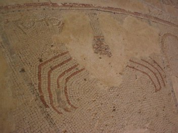 Astrological symbol of cancer in the mosaic at the ancient synagogue of Na'aran